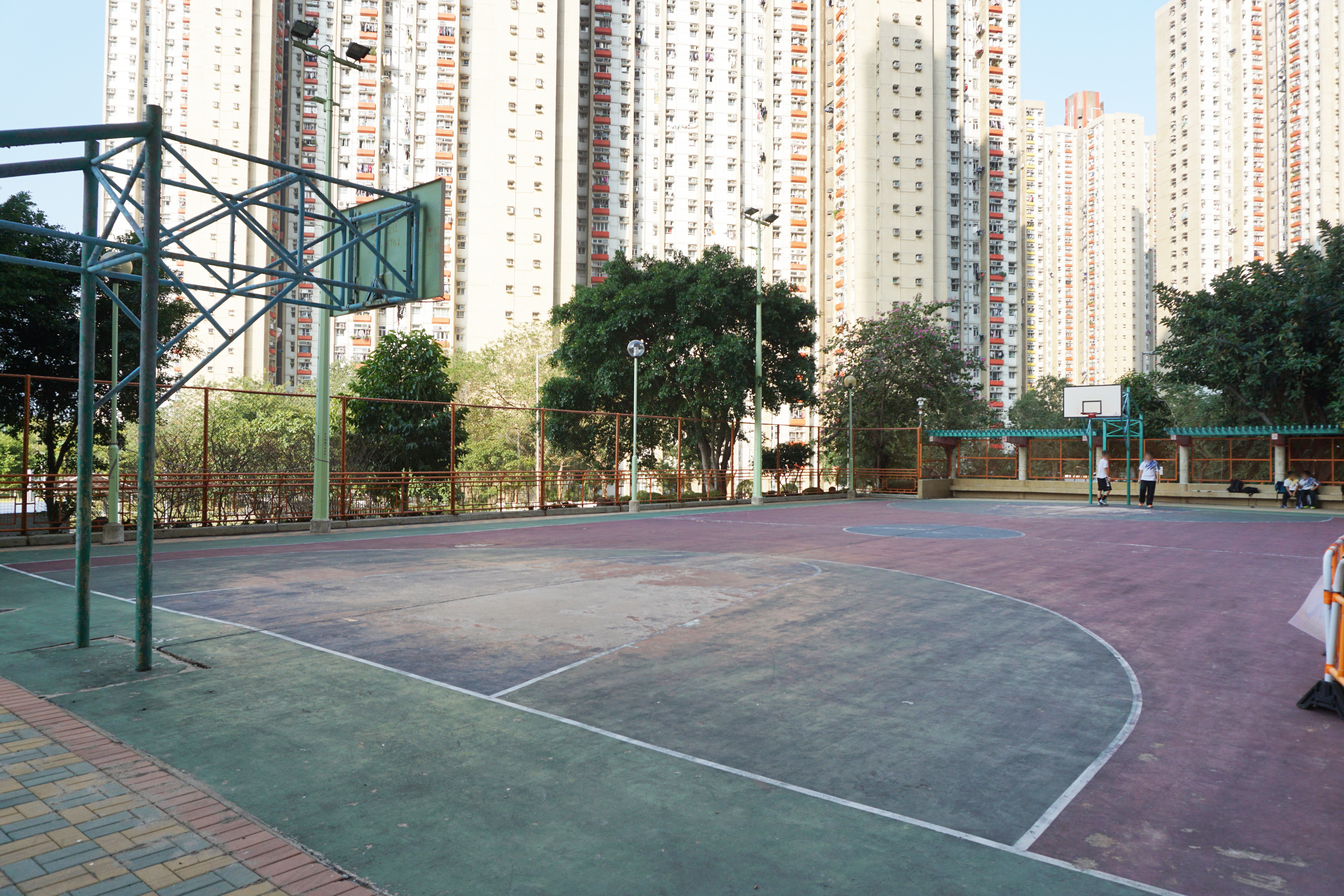 Cheung On Estate in Tsing Yi, Hong Kong.